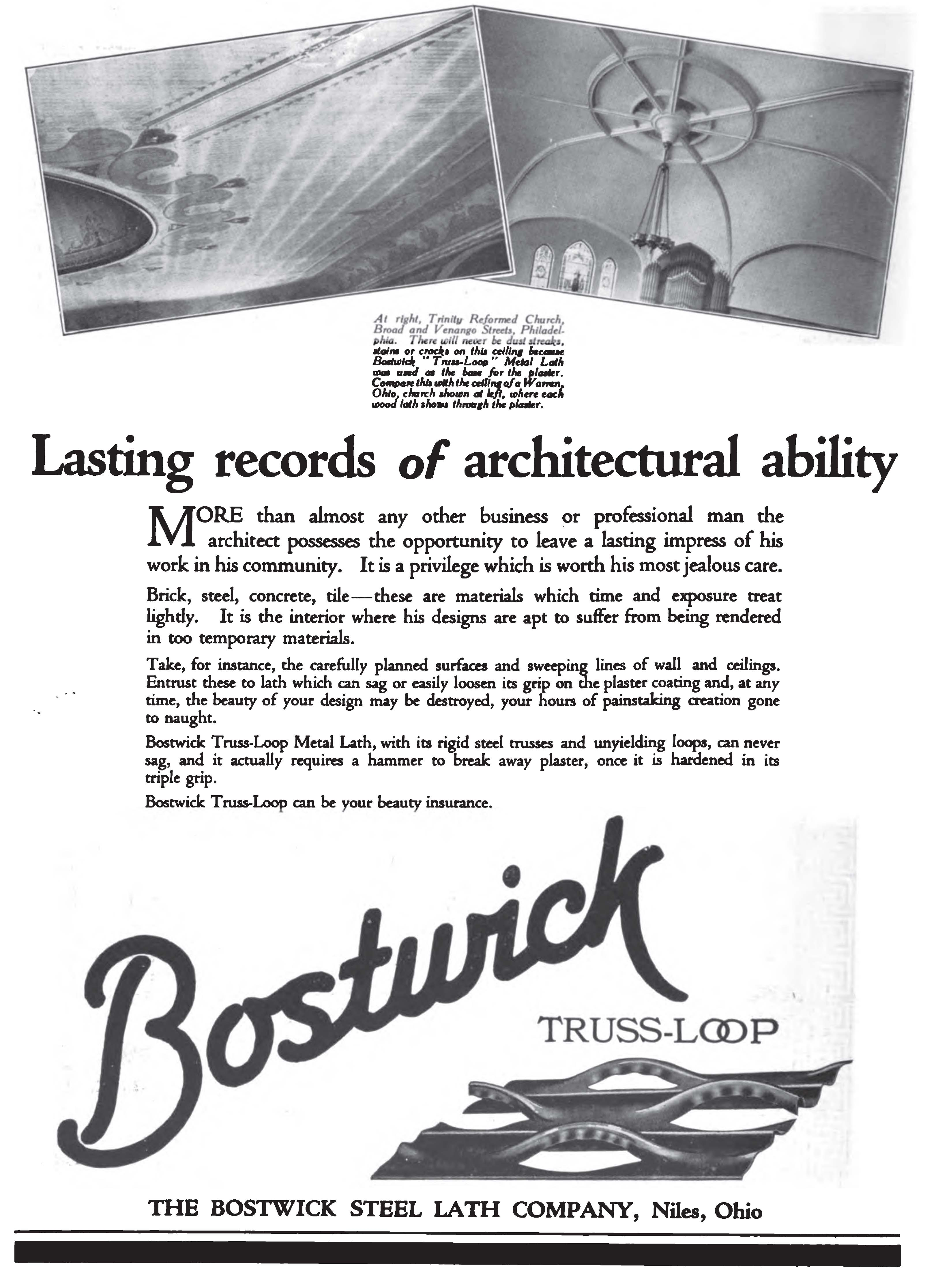 Bostwick Steel Lath Company advertisement for steel truss loops. From page 36 of Architectural Forum Vol 33 Issue 5-6